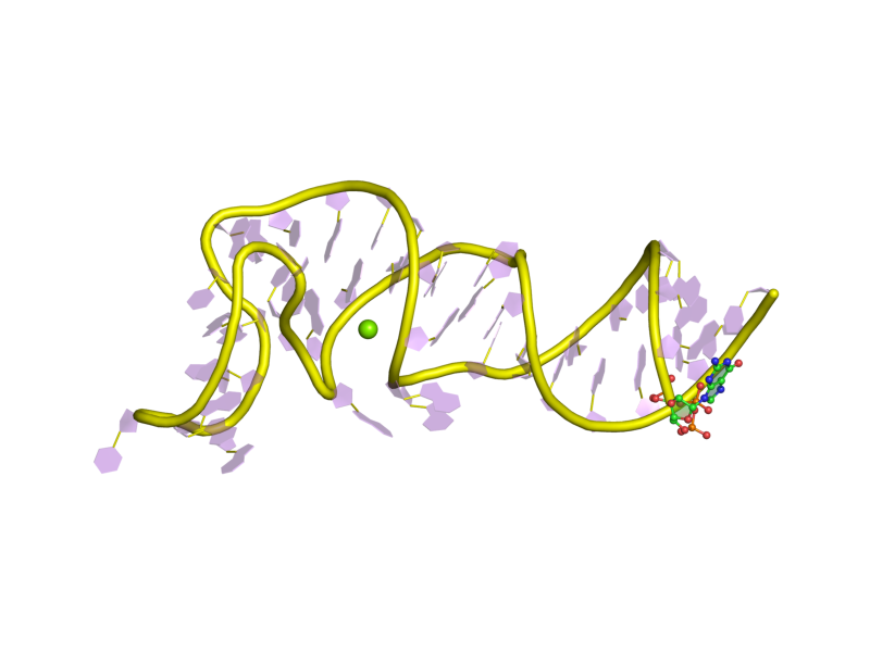 Cartoon representation of the molecular structure of protein registered with 1xjr code.